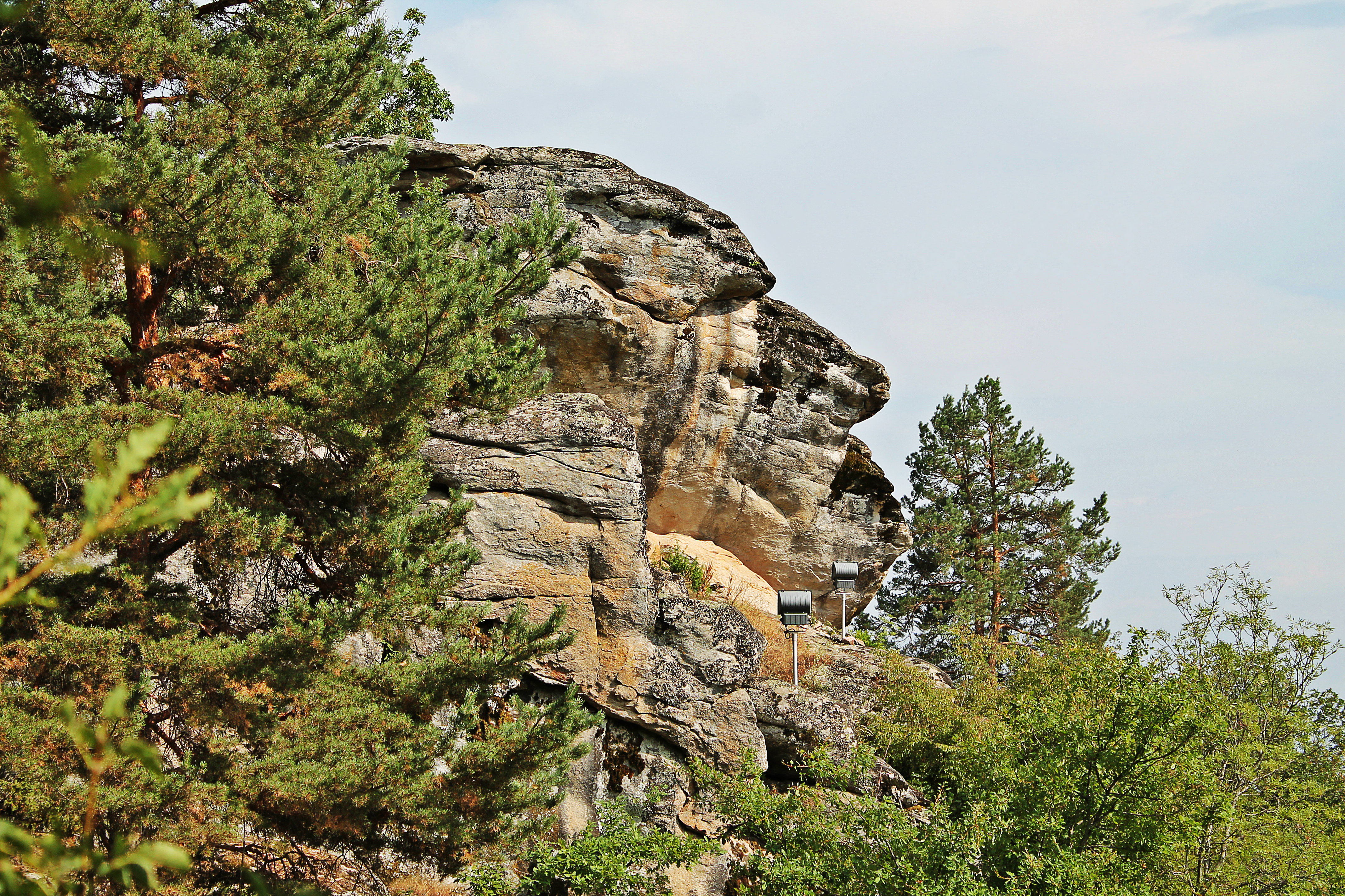 The_Head_Dolno_Dryanovo_BG